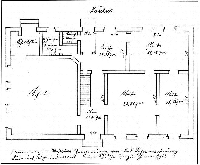 School in Gömnigk, ground plan 1903. The village Gömnigk is a part of the town Brück in the district Potsdam Mittelmark, state Brandenburg, Germany, at the border to the natural preserve Naturpark Hoher Fläming.